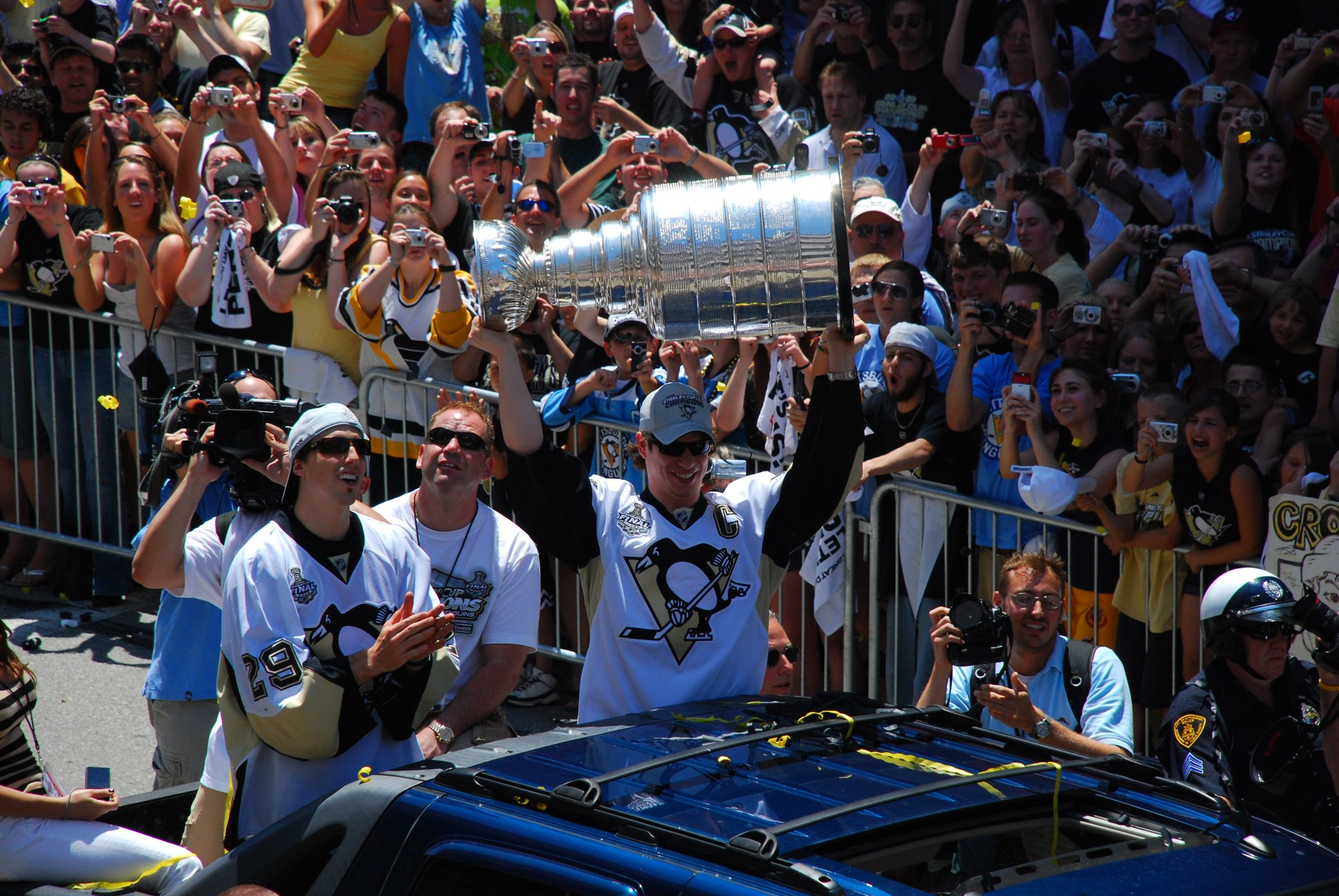 Team captain Sid Crosby with Stanley Cup during 2009 parade in Pittsburgh, PA